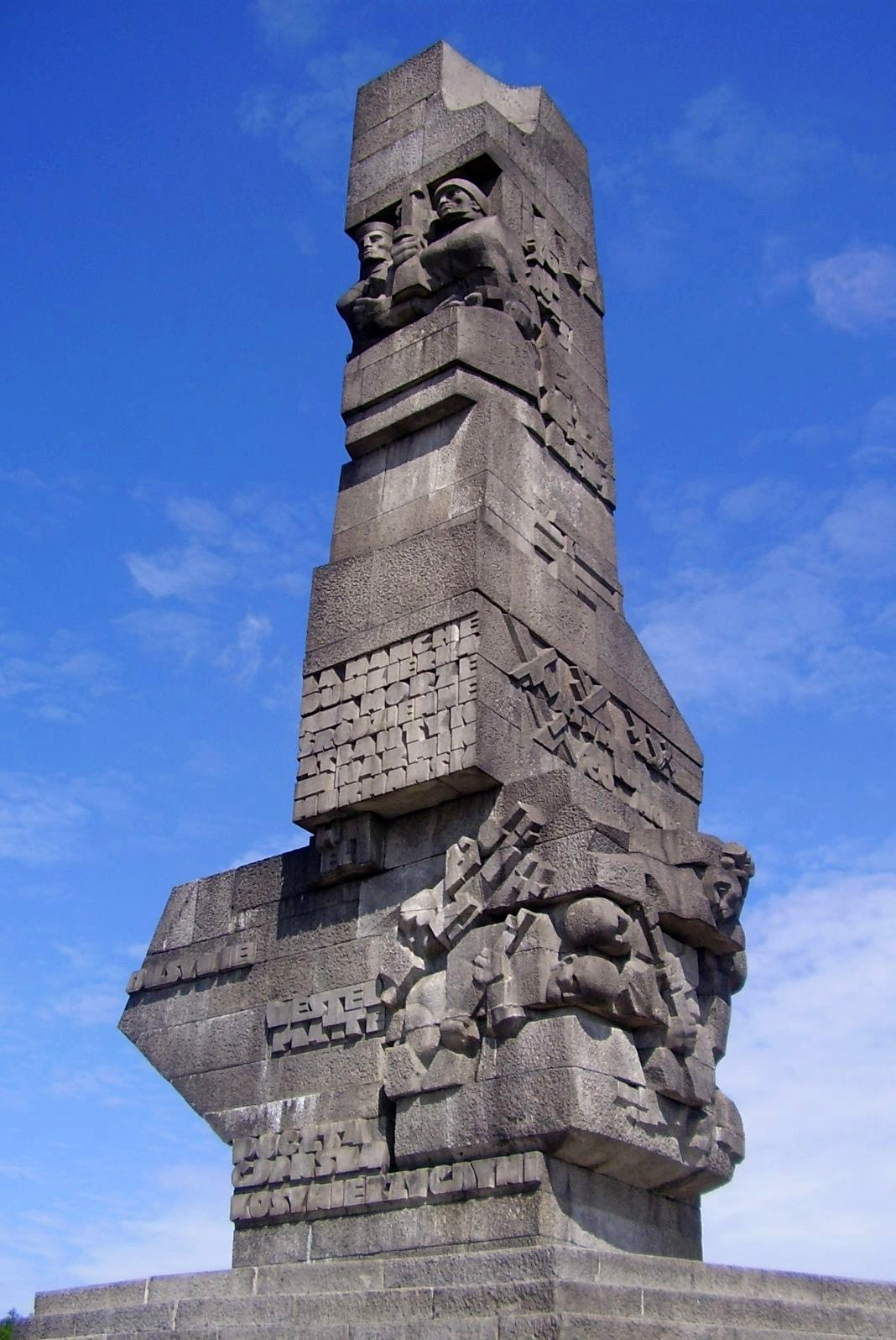 Monument at Westerplatte, Poland